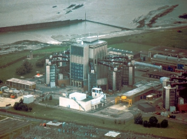 Berkeley Power Station from the air